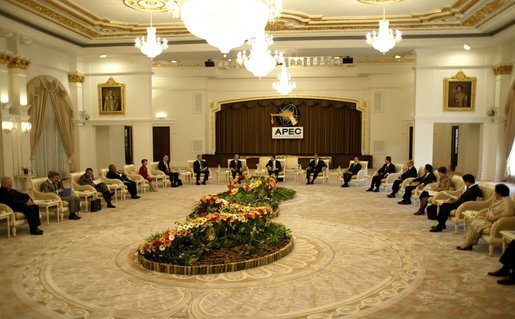 President George W. Bush attends the APEC leaders retreat at the Government House in Bangkok, Thailand, Oct. 20, 2003. President Bush came to the APEC Leaders Meeting to encourage increased efforts to combat security threats and promote economic growth.